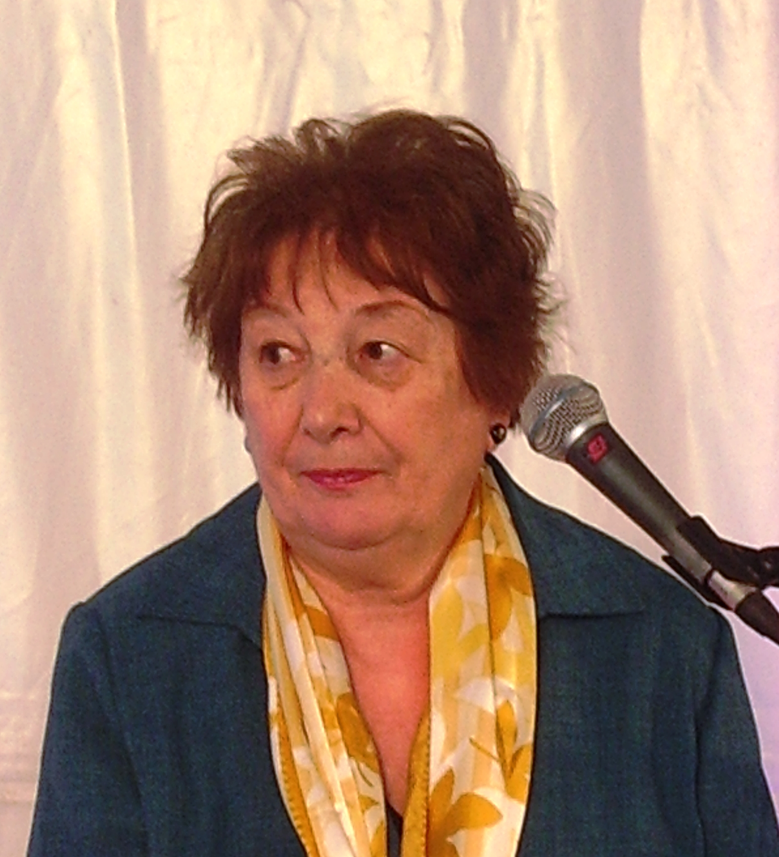 Ann Granger (born 1939) is a British crime writer. Performing in Literature Festival of Tallinn.